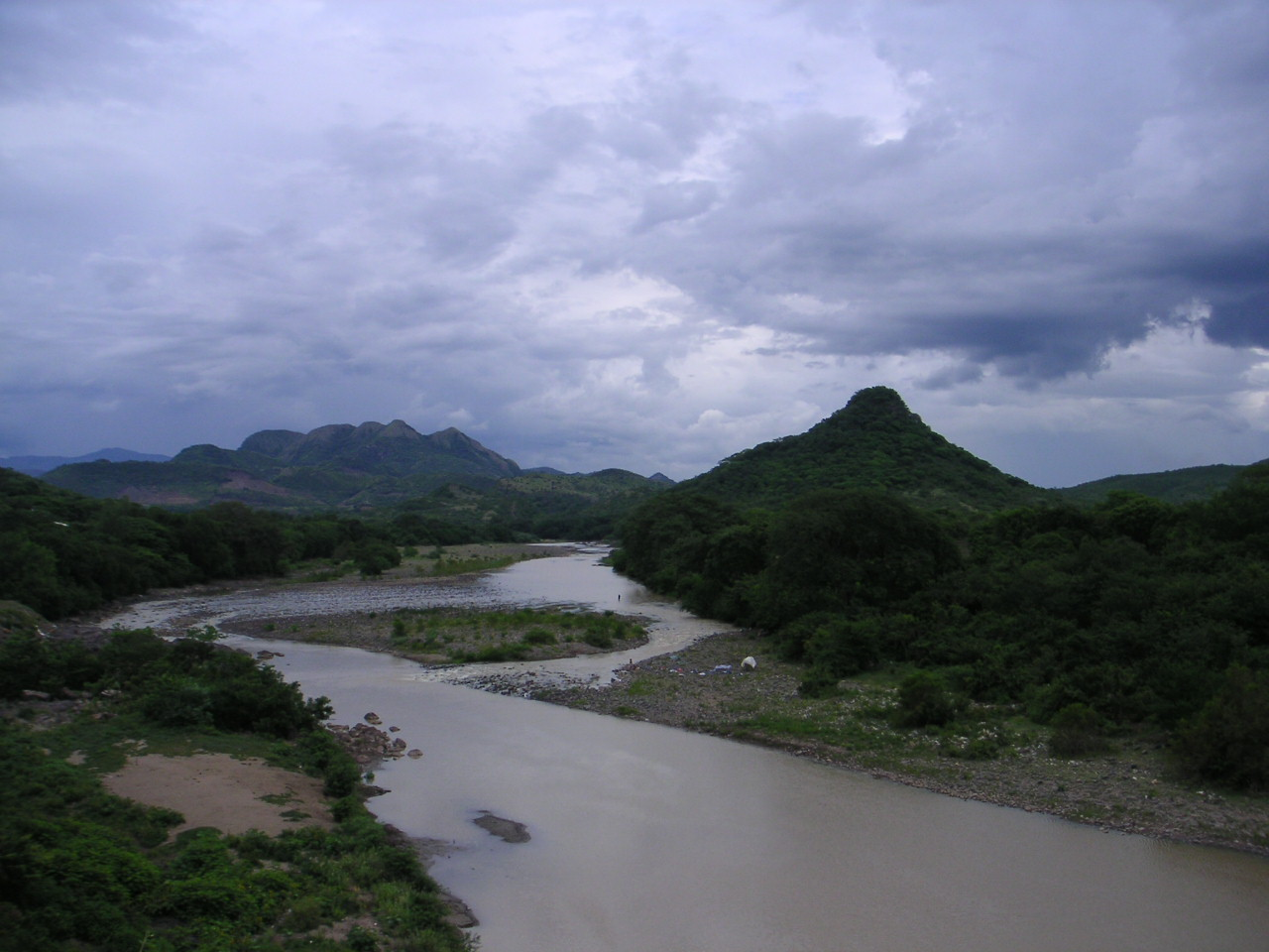 Border between El Salvador and Honduras. Photo: Soman